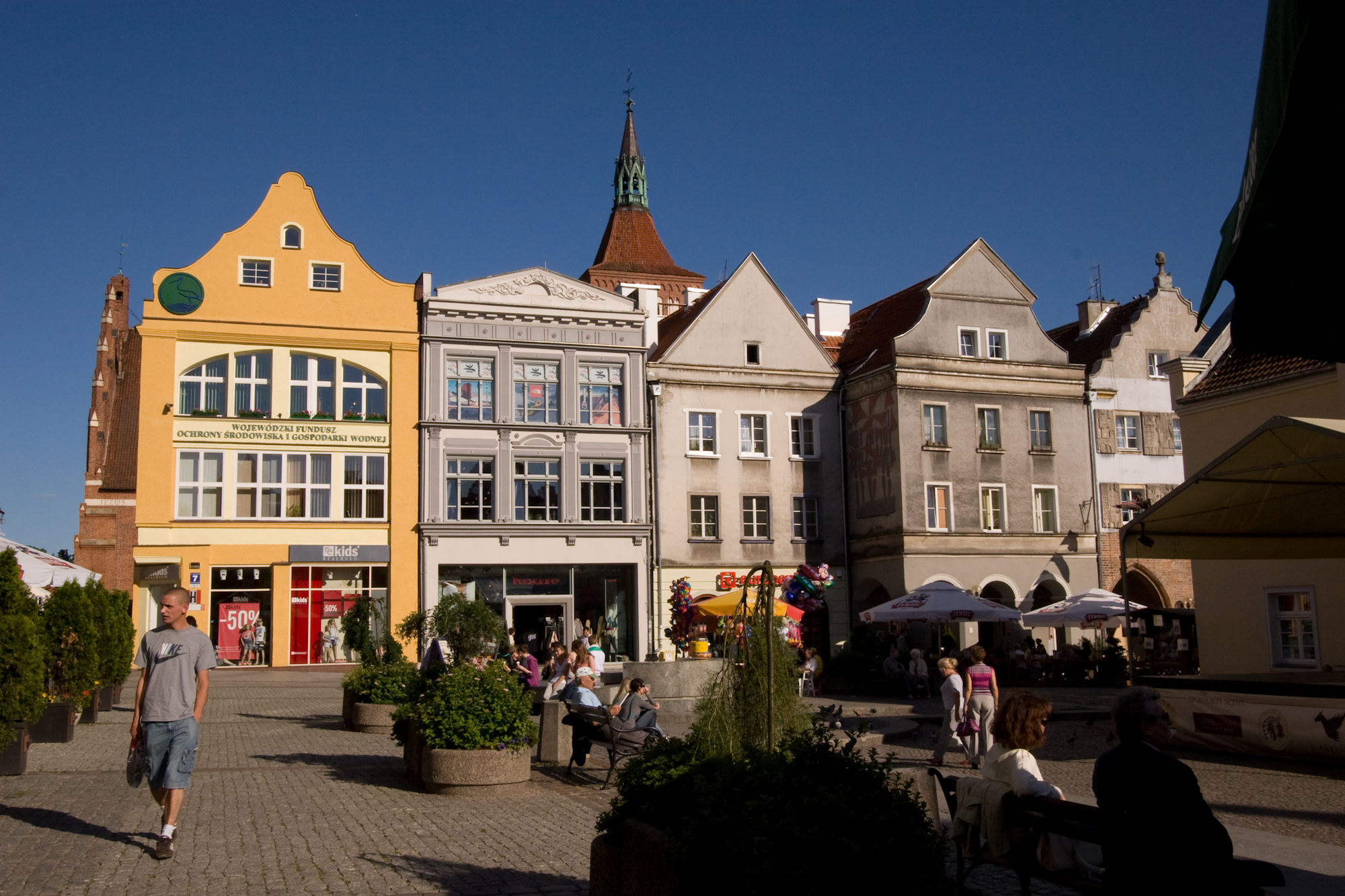 The Old Town Square in Olsztyn